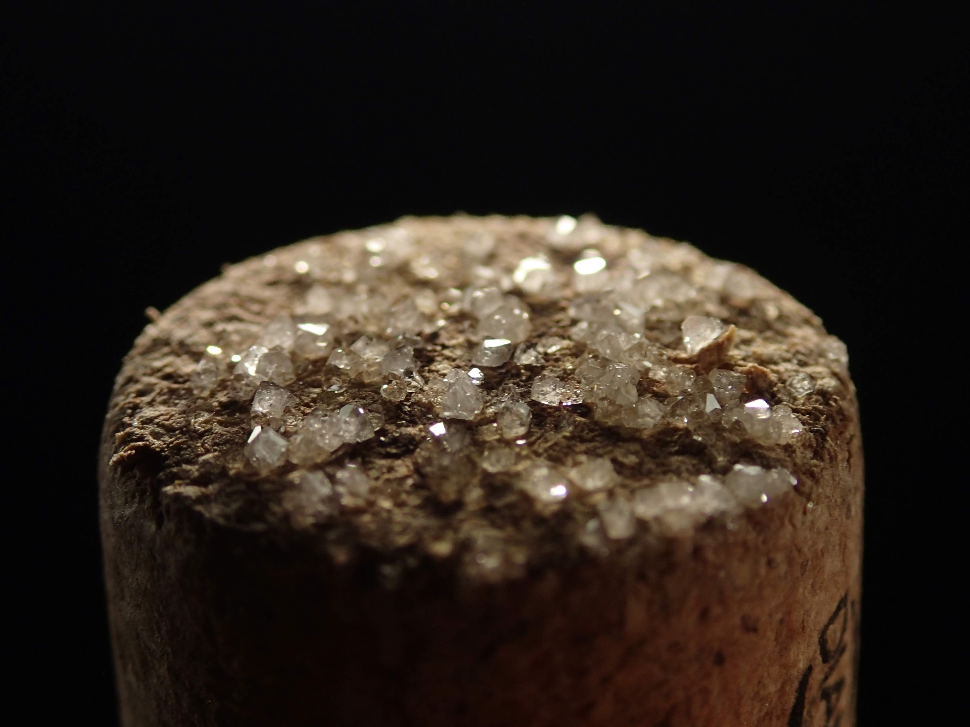 Tartrate crystals on a cork of a white Chardonnay wine.